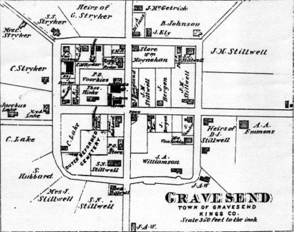 Gravesend Town Map 1873